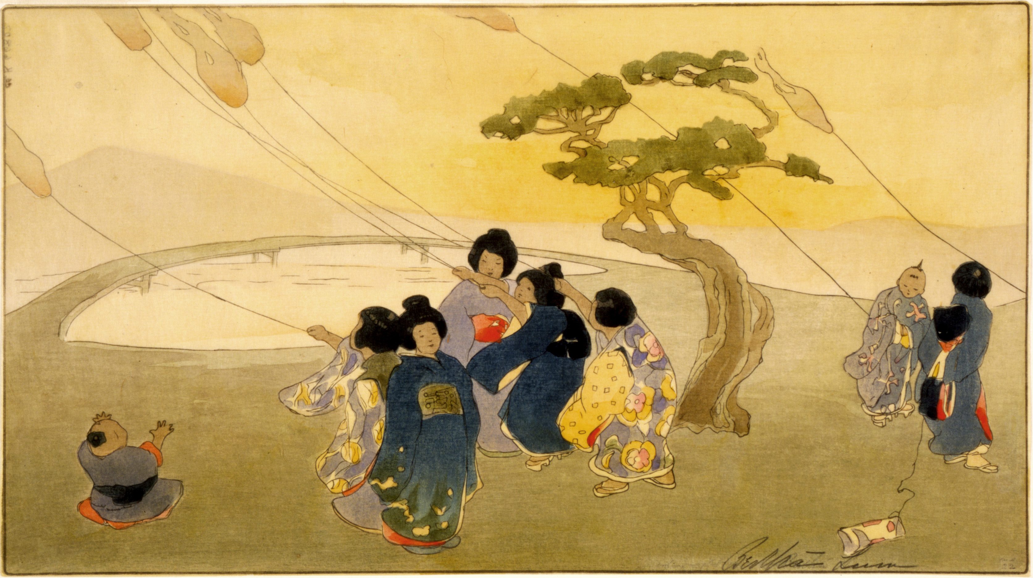 Japanese children flying kites. 1 print : woodcut, color.